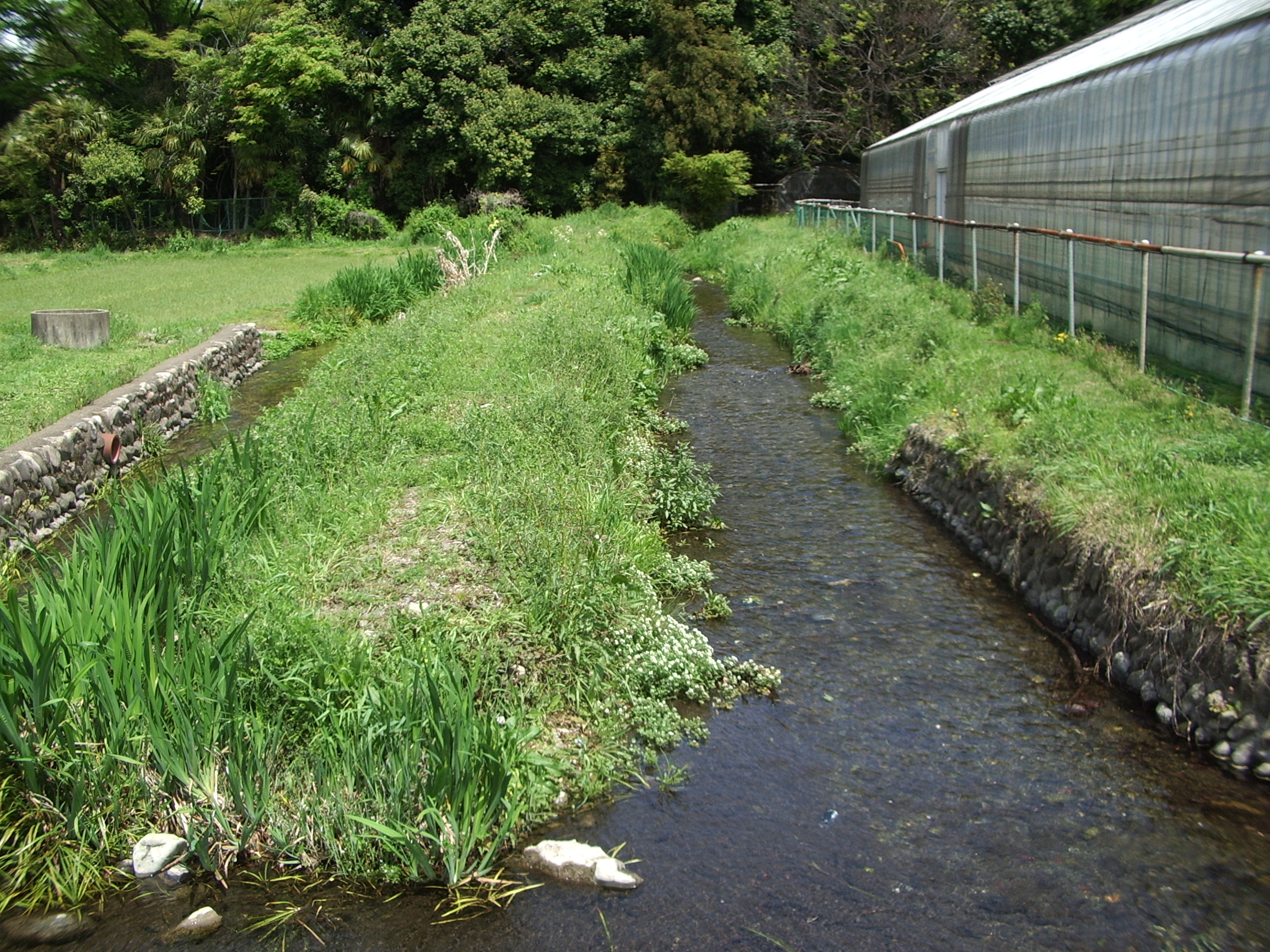 Irrigation at Kunitachi, Tokyo